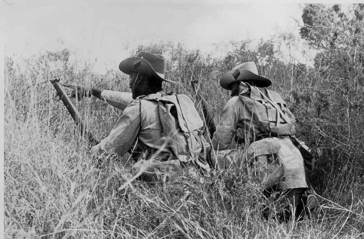 Soldiers of the King's African Rifles training in the Kenyan bush. Caption: ASIKARI MSITUNI WANATEZAMA MAADUI